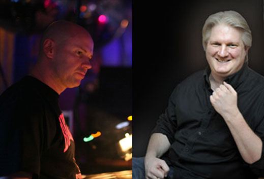 Small portrait of Record Producer Steve Anderson (cropped)